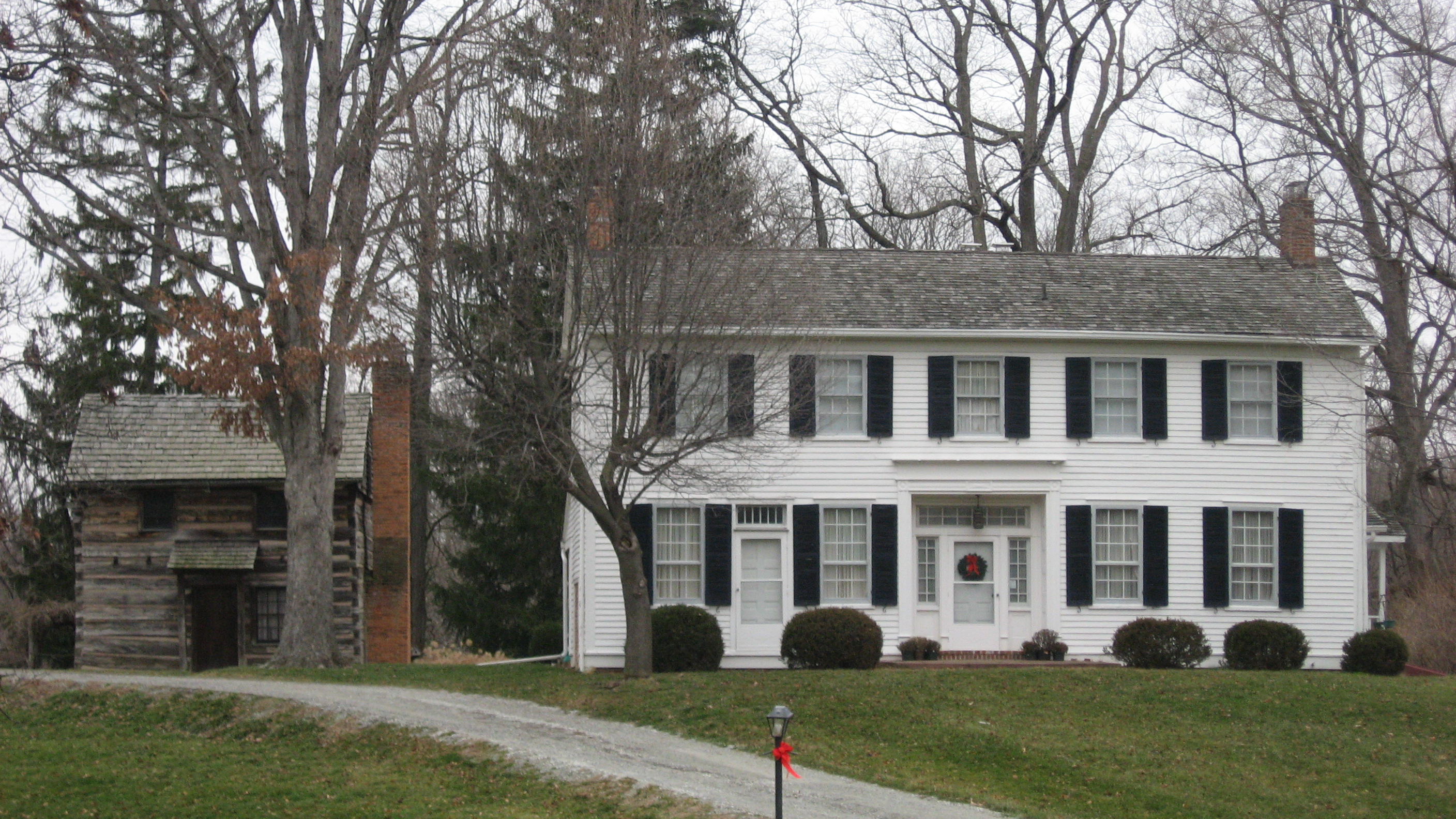 Distant view of the John Kinzer Cabin and the John Kinzer House, located at 1732 E. State Road 234 in Carmel, Indiana, United States. Built in 1828 (cabin) and 1840 (other house), they are listed together on the National Register of Historic Places.